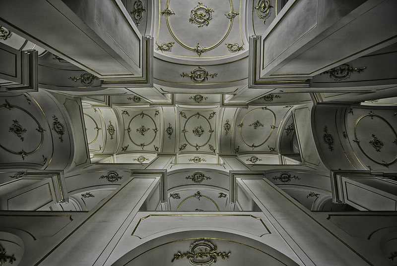 Grand Staircase Bratislava Castle